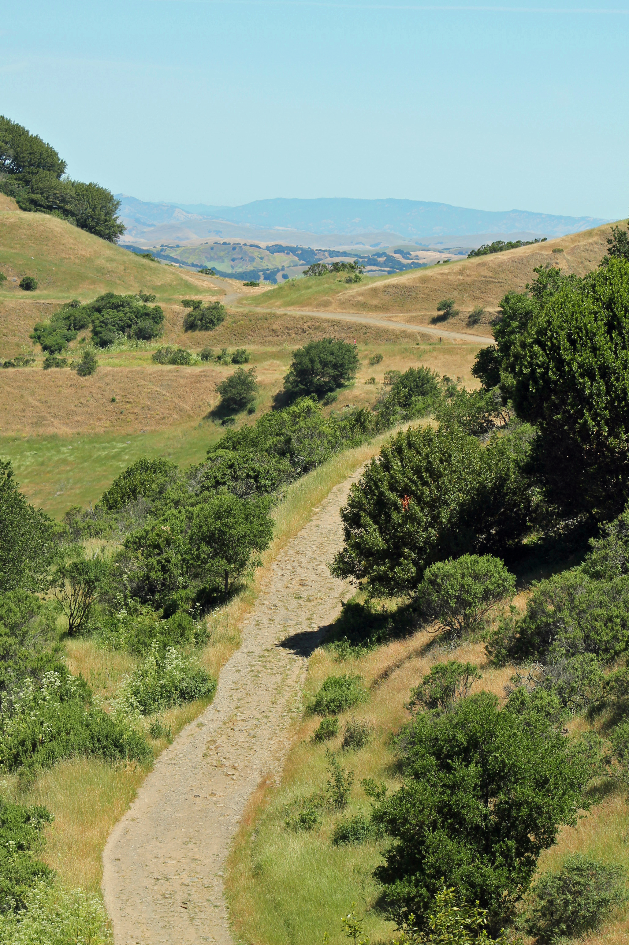 View from Round Top a dormant volcano at Sibley Volcanic Regional Preserve, Oakland, CA